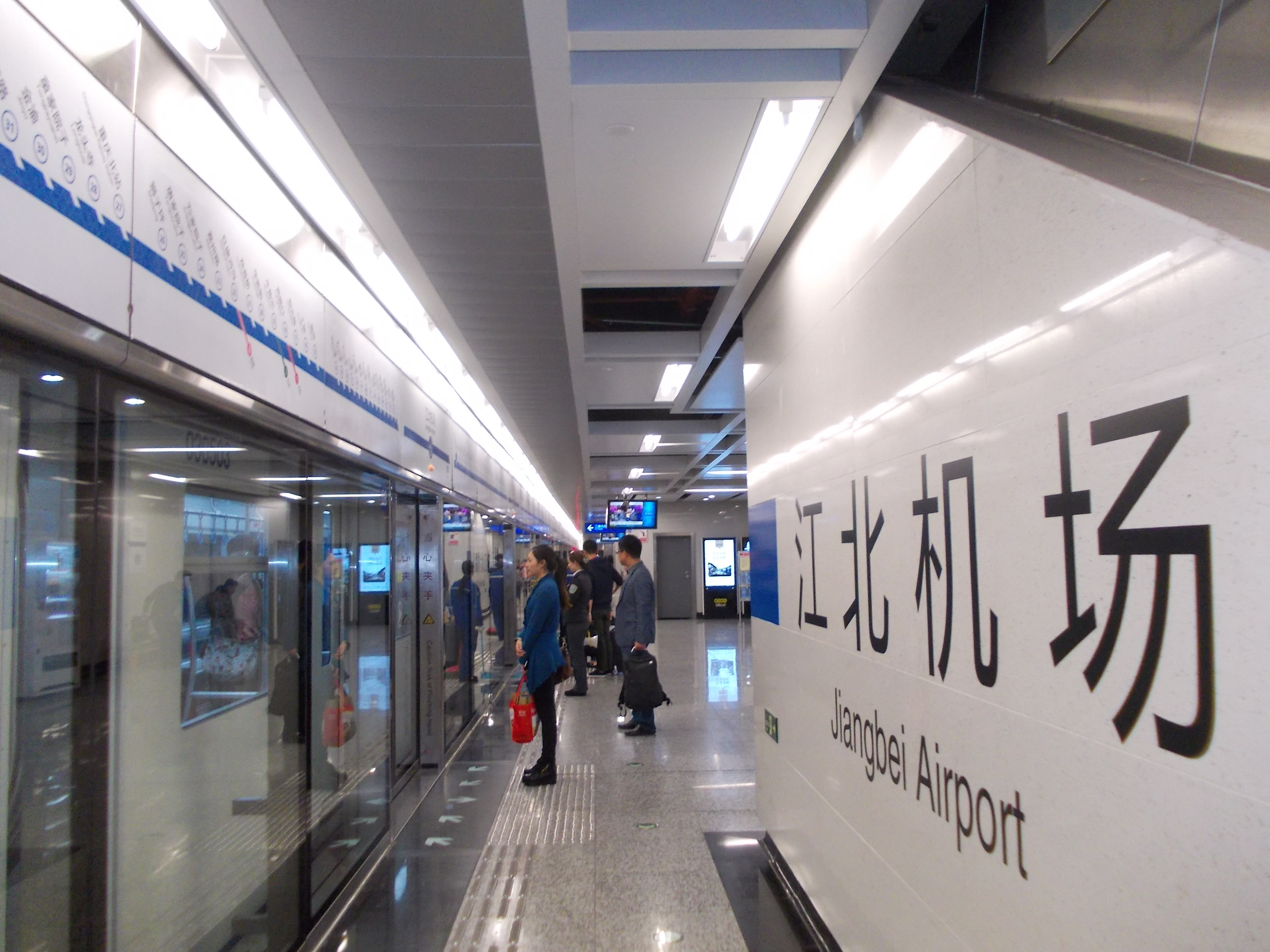 Chongqing Rail Transit - Jiangbei Airport - Platform